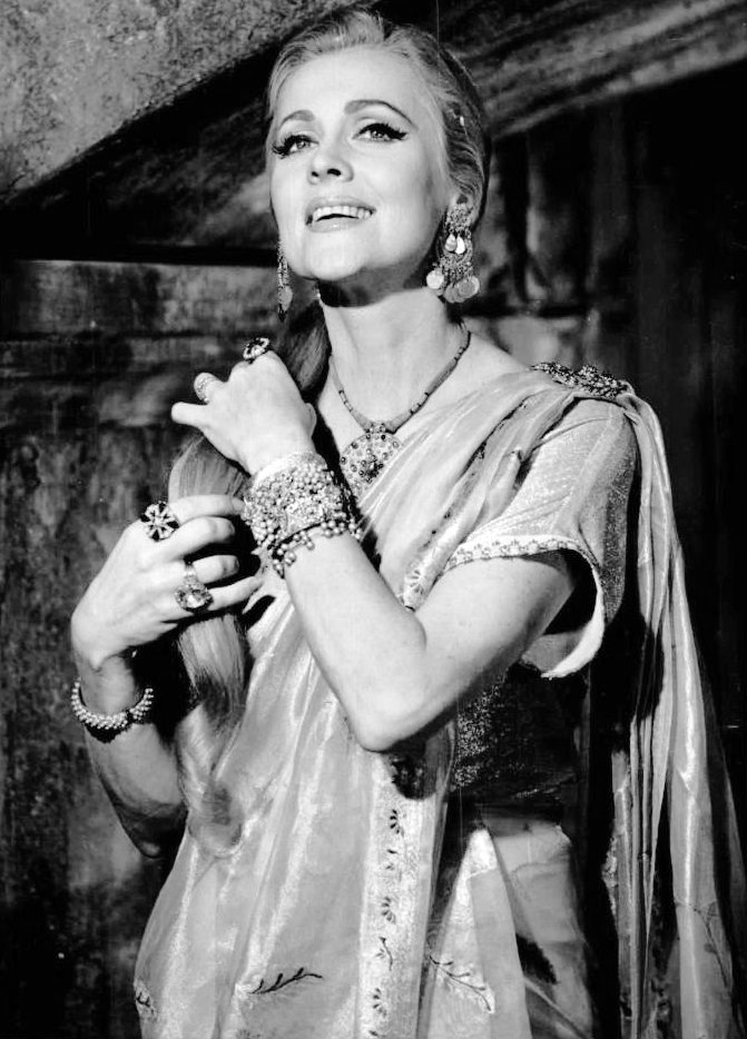 Anne Jeffreys in the TV series The Man from U.N.C.L.E., Season 3, episode 13 The Abominable Snowman Affair - publicity still (original image cropped : see source)